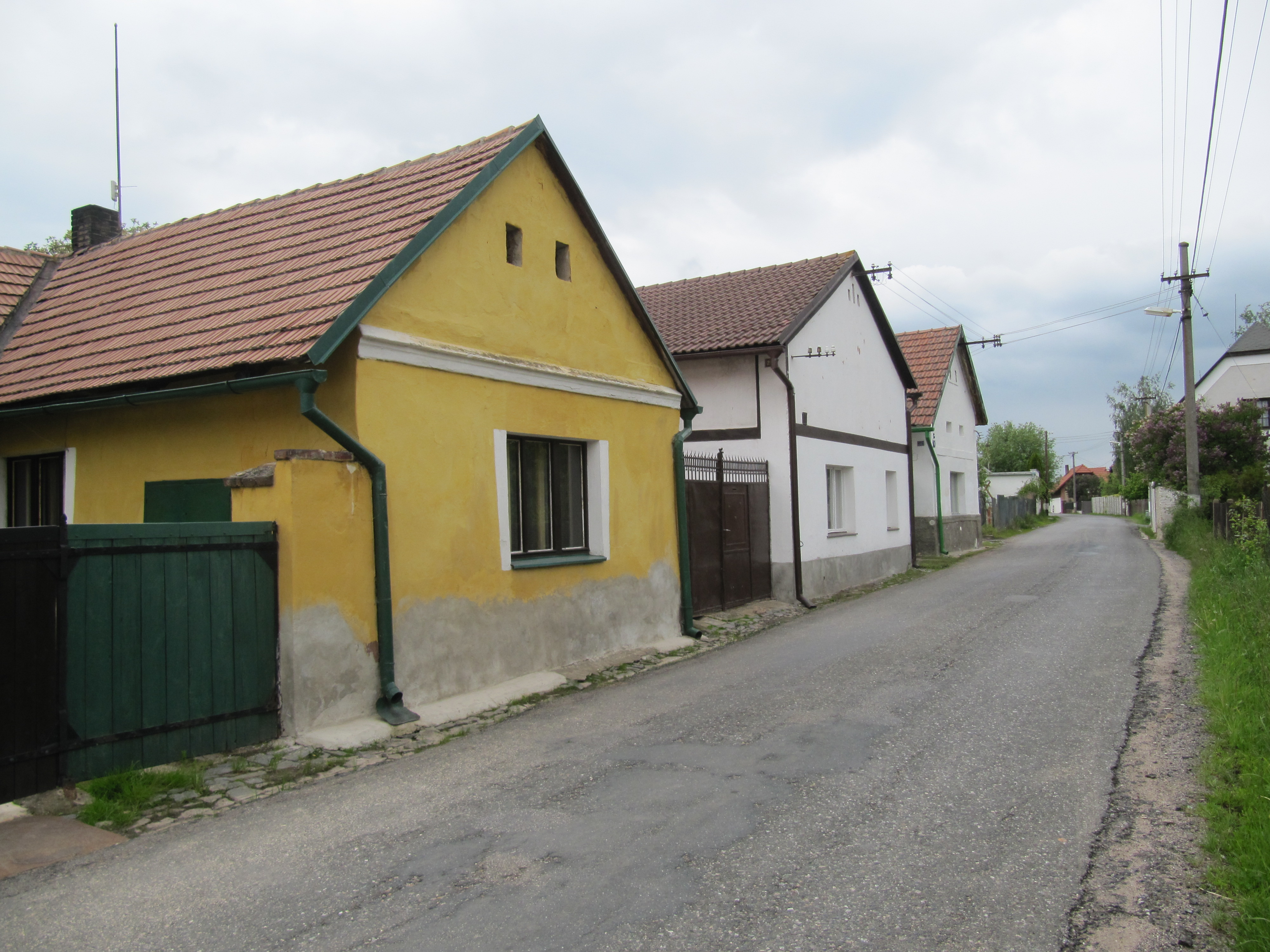 Třebovle, Kolín District, Czech Republic, part Borek. Houses at the main street.